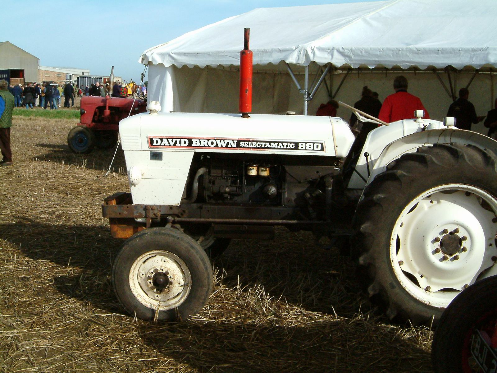 David Brown 990 tractor